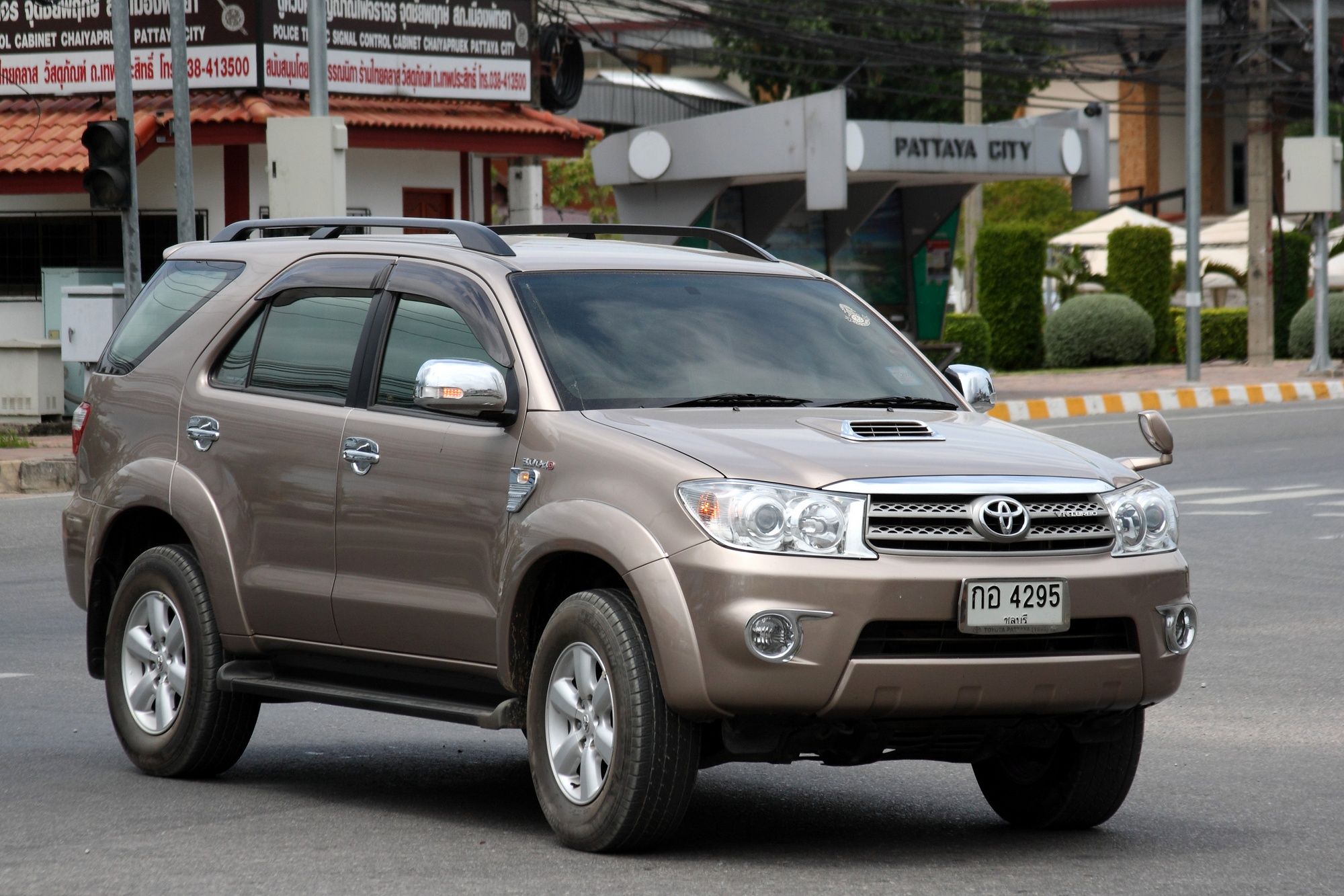 Toyota Fortuner in Pattaya, Chonburi province, Thailand